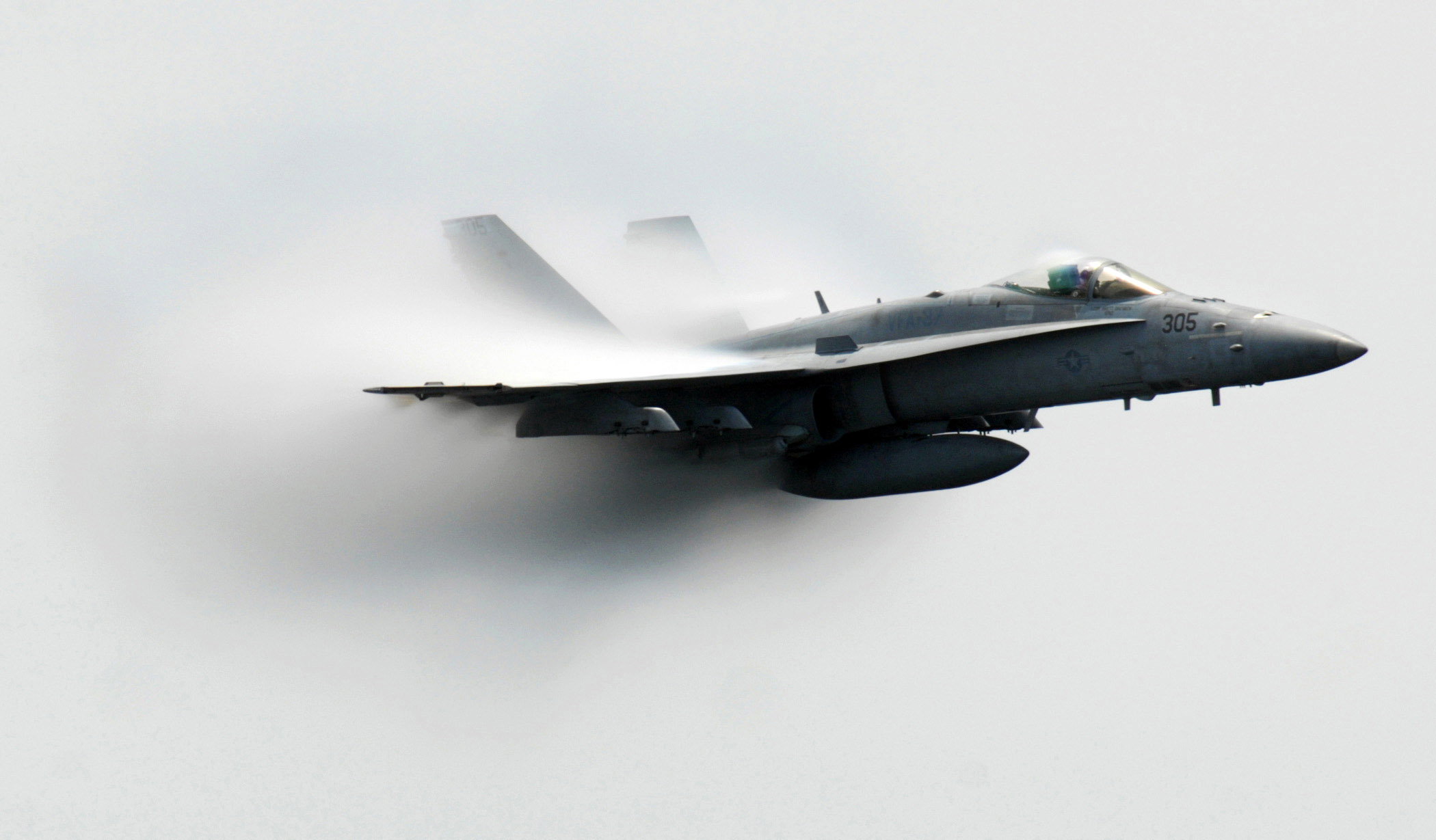 ATLANTIC OCEAN (June 2, 2007) - An F/A-18C Hornet assigned to the Strike Fighter Squadron (VFA) 37 performs a supersonic pass as part of the air power demonstration during the Friends and Family Day Cruise aboard Nimitz-Class aircraft carrier USS Harry S. Truman (CVN 75). Sailors brought their friends and family aboard Truman so they could experience a day in the life of a Sailor. U.S. Navy photo by Mass Communication Specialist 3rd Class Ricardo Reyes (RELEASED)